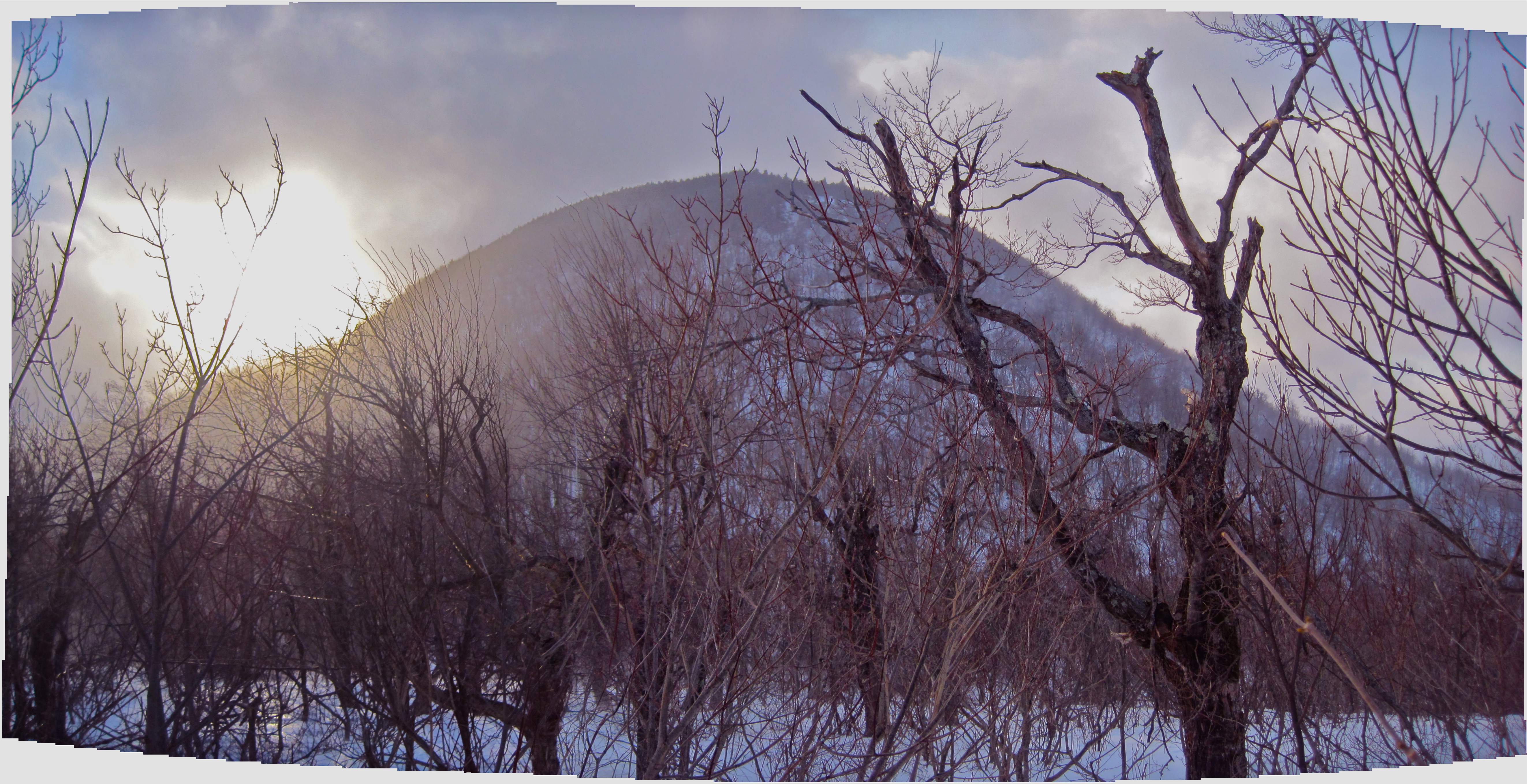 View of the eastern side of Black Dome (gnis 973342).